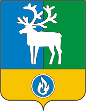 Beloyarsky (Khanty-Mansia), coat of arms